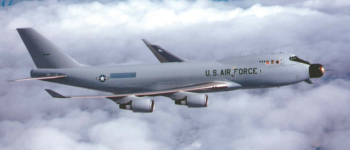 Airborne Laser (ABL)